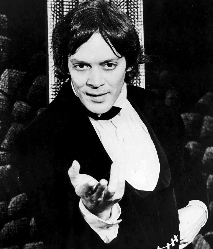 Publicity photo of Raul Julia